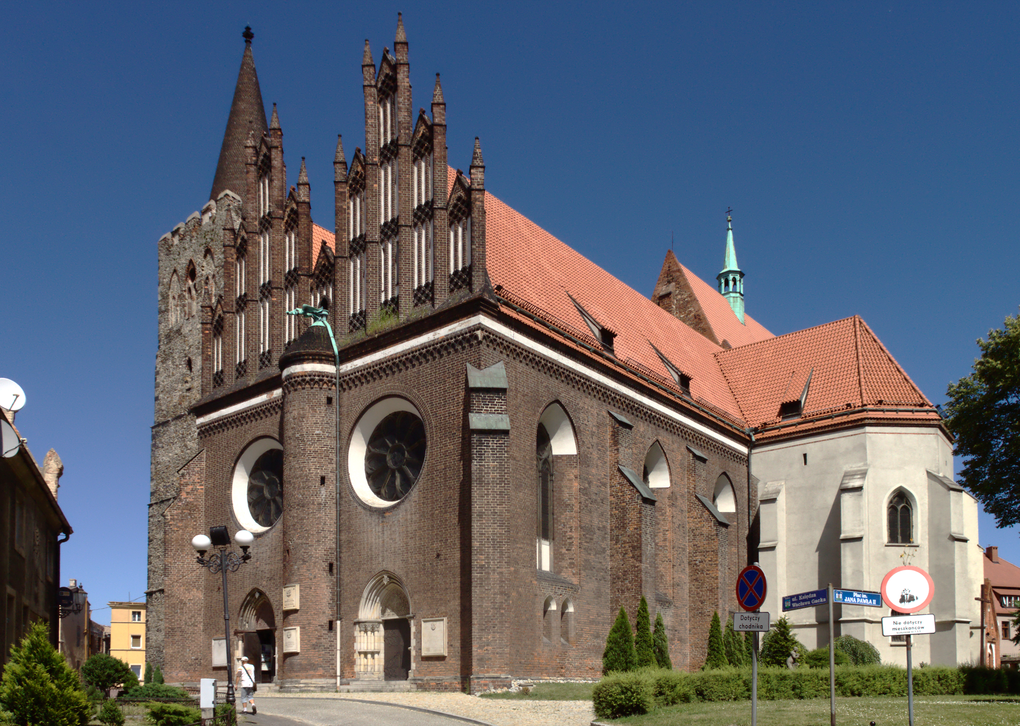 A basilica in the northern part of the town of Ziębice, Poland